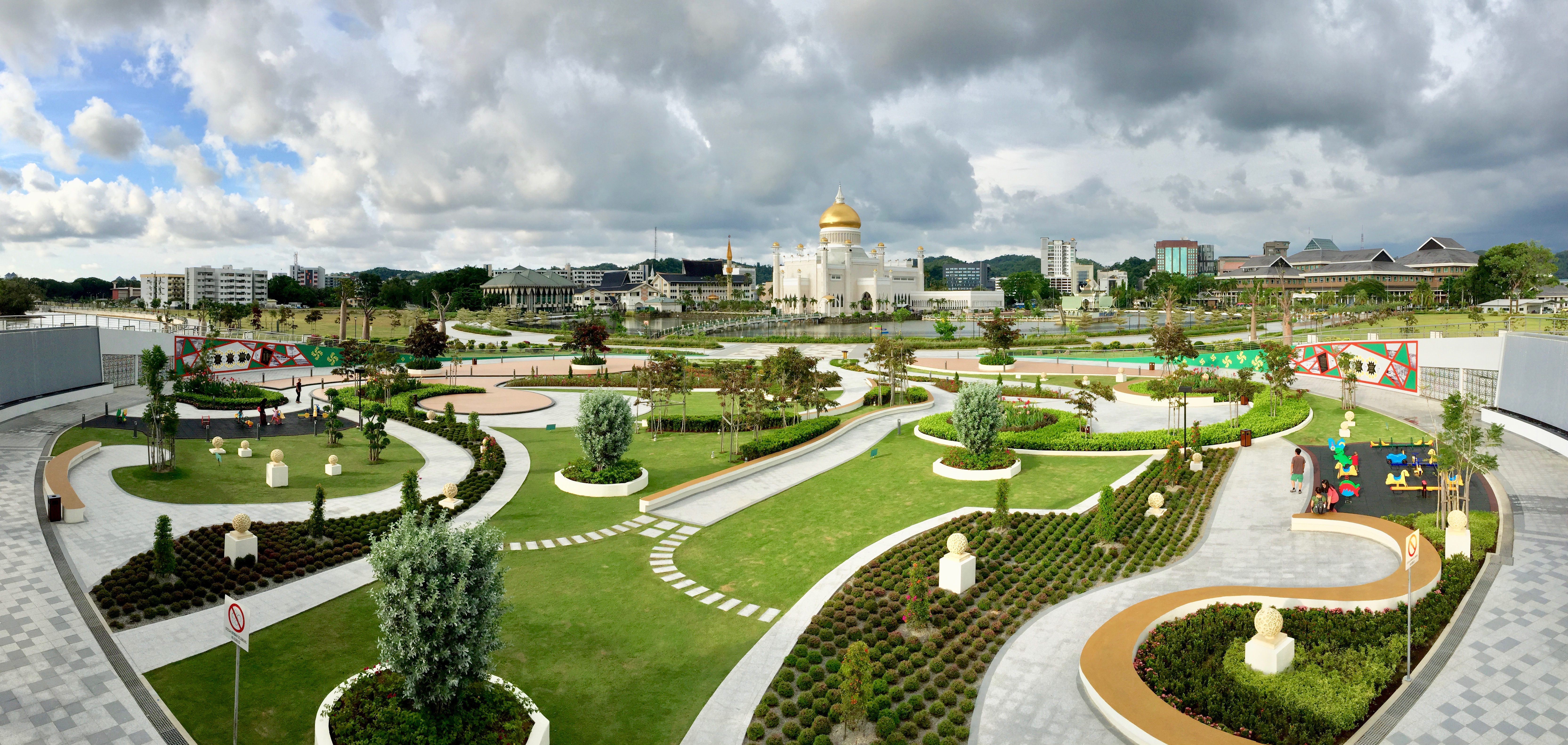 Panorama of the garden area at Taman Mahkota Jubli Emas with the cityscape of Bandar Seri Begawan's City Centre in the background. Taken on 20 May 2018.